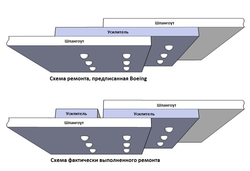 Diagram of the incorrect repair - JAL123 (Russian)